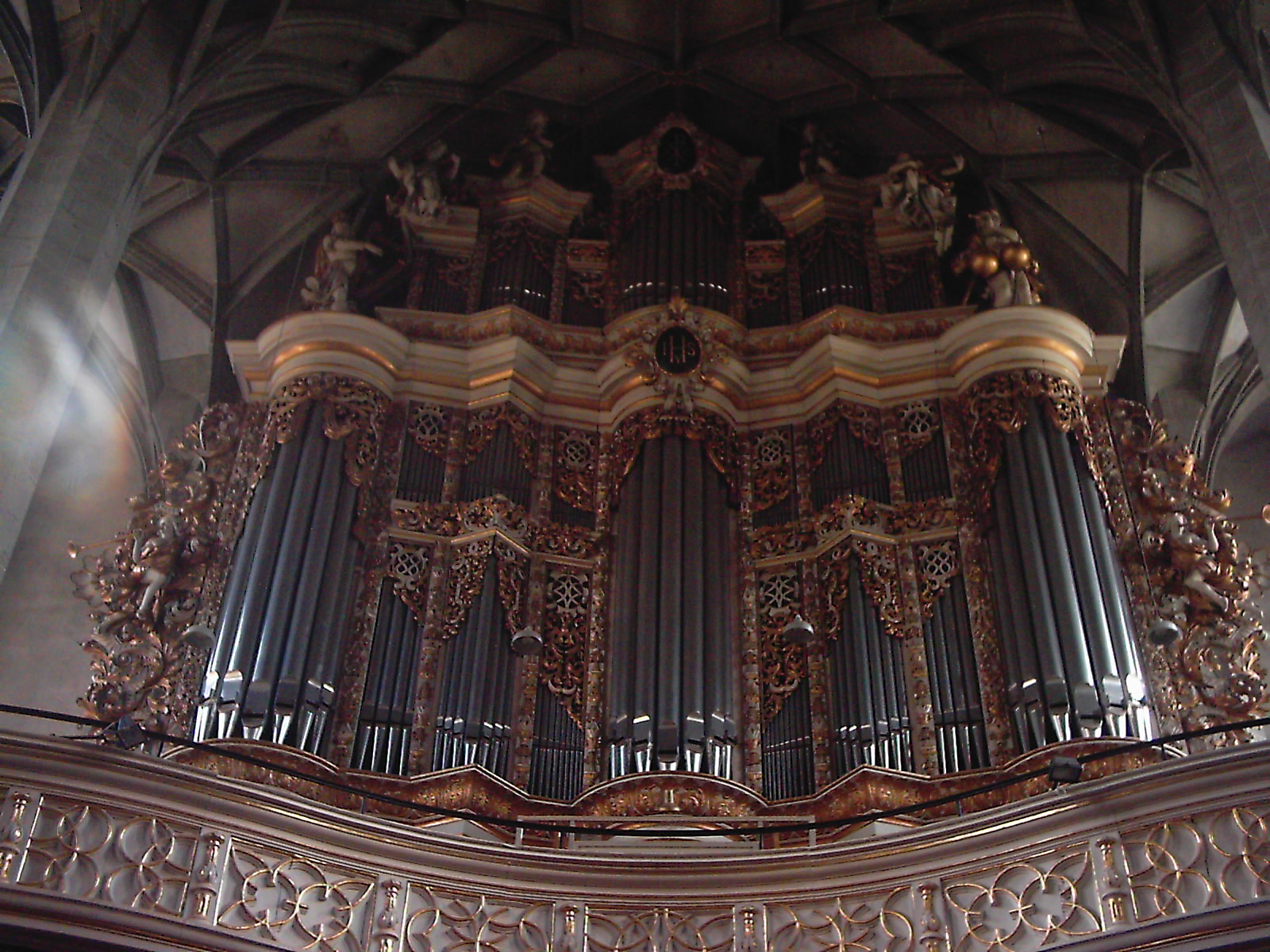 Organ of Marktkirche Unser Lieben Frauen in Halle, Saxony-Anhalt